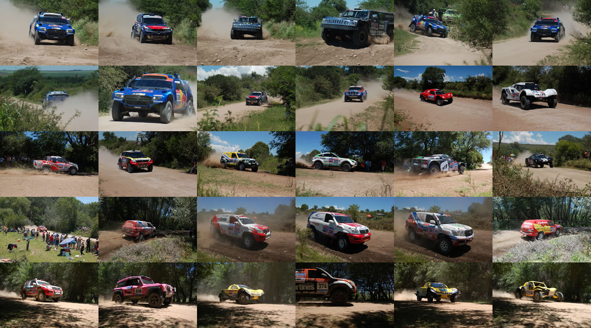 Dakar 2010. Cars. 1ª etapa. Colón, Provincia de Buenos Aires, Argentina.